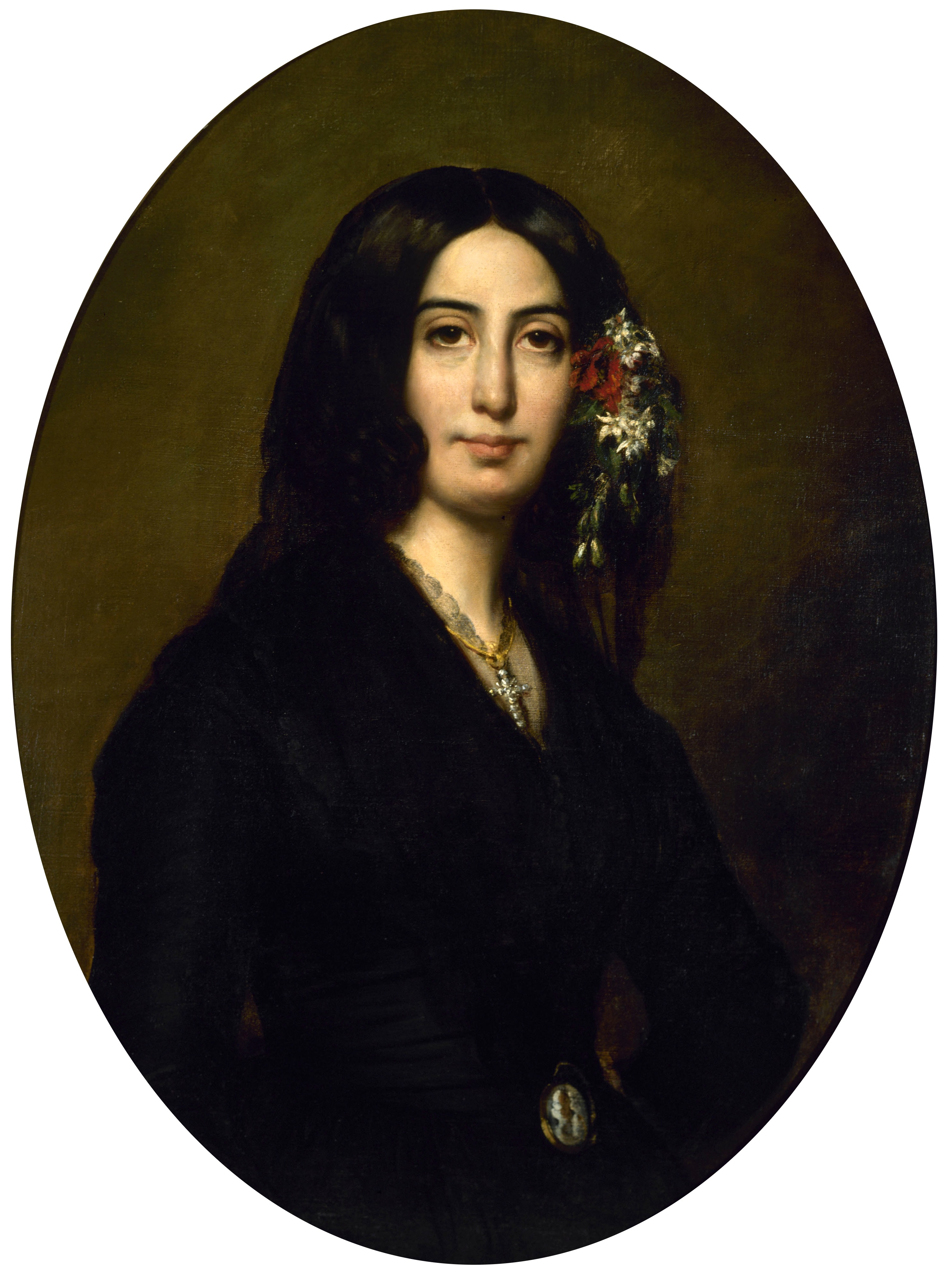 Portrait of George Sand